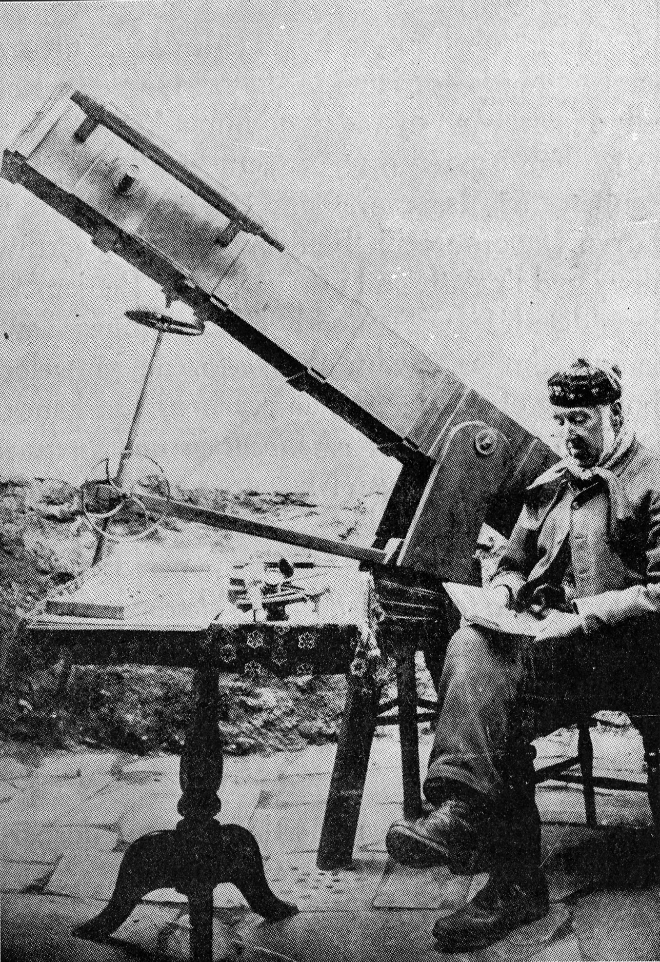 A photograph of John Jones (1818–1898) of Bangor, Wales, with his largest telescope, an 8-inch aperture reflector of his own construction. Scanned from the reproduction in Seryddiaeth a Seryddwyr by J. S. Evans (Cardiff, 1923, page 273) of the photograph published by Arthur Mee (1860–1926) in Young Wales, vol. 4, no. 48, page 272, 1898.